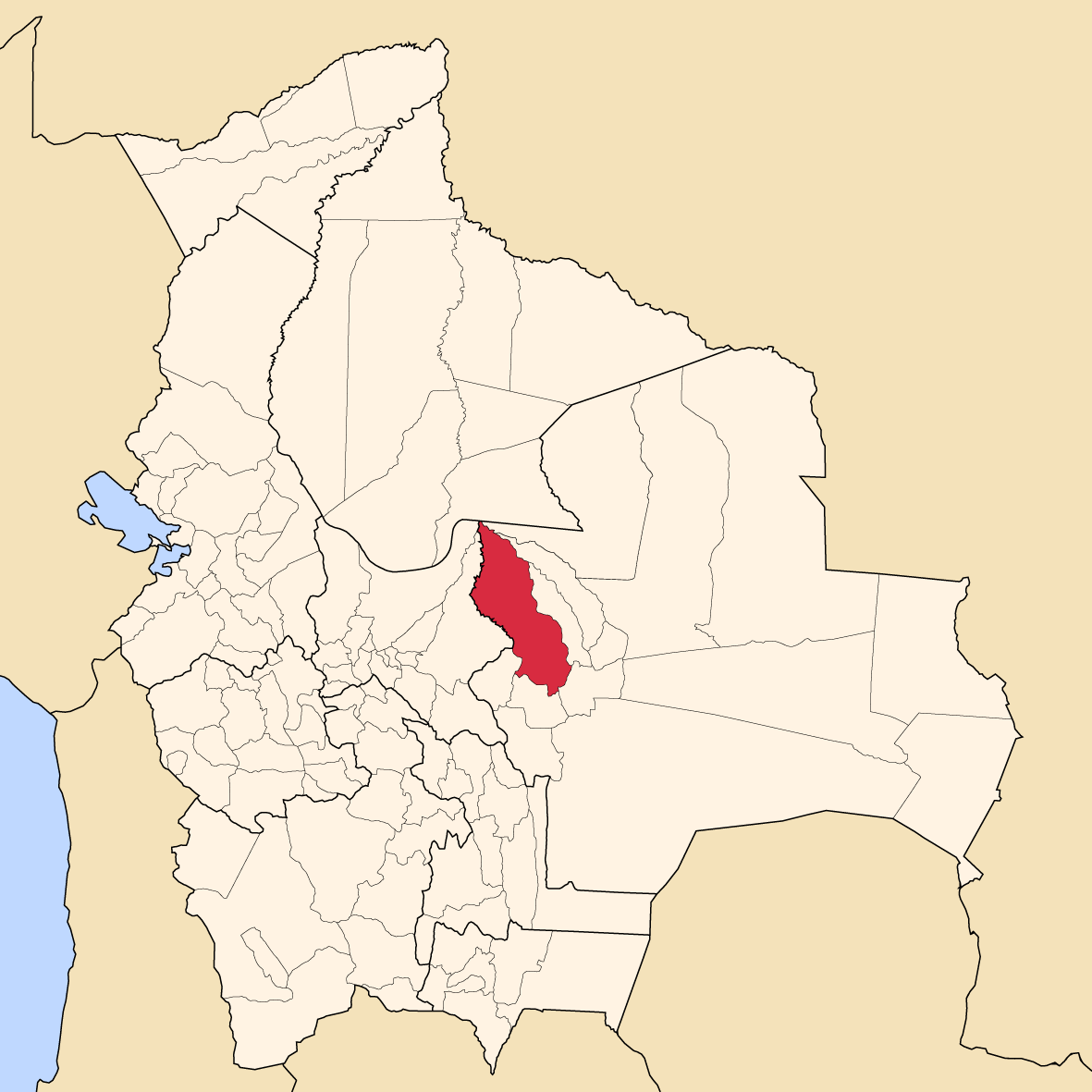 Map of Bolivia showing Ichilo province, Santa Cruz